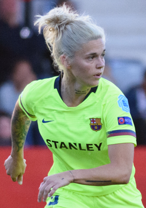 Mapi León during the Champions League match vs Fc Bayern München